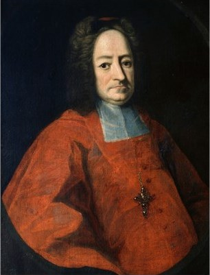 Portrait of Leopold Anton von Firmian (1679-1744), Prince-Archbishop of Salzburg